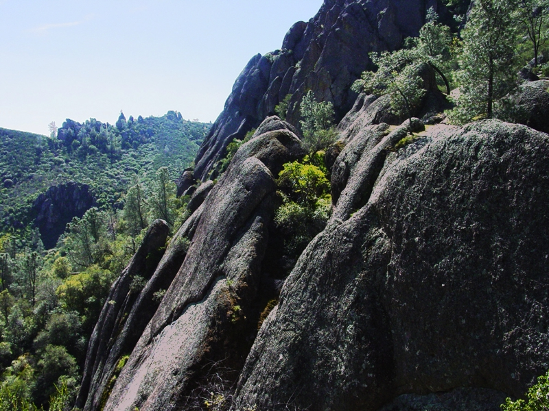 Pinnacles National Monument, California, rhyolite wall.